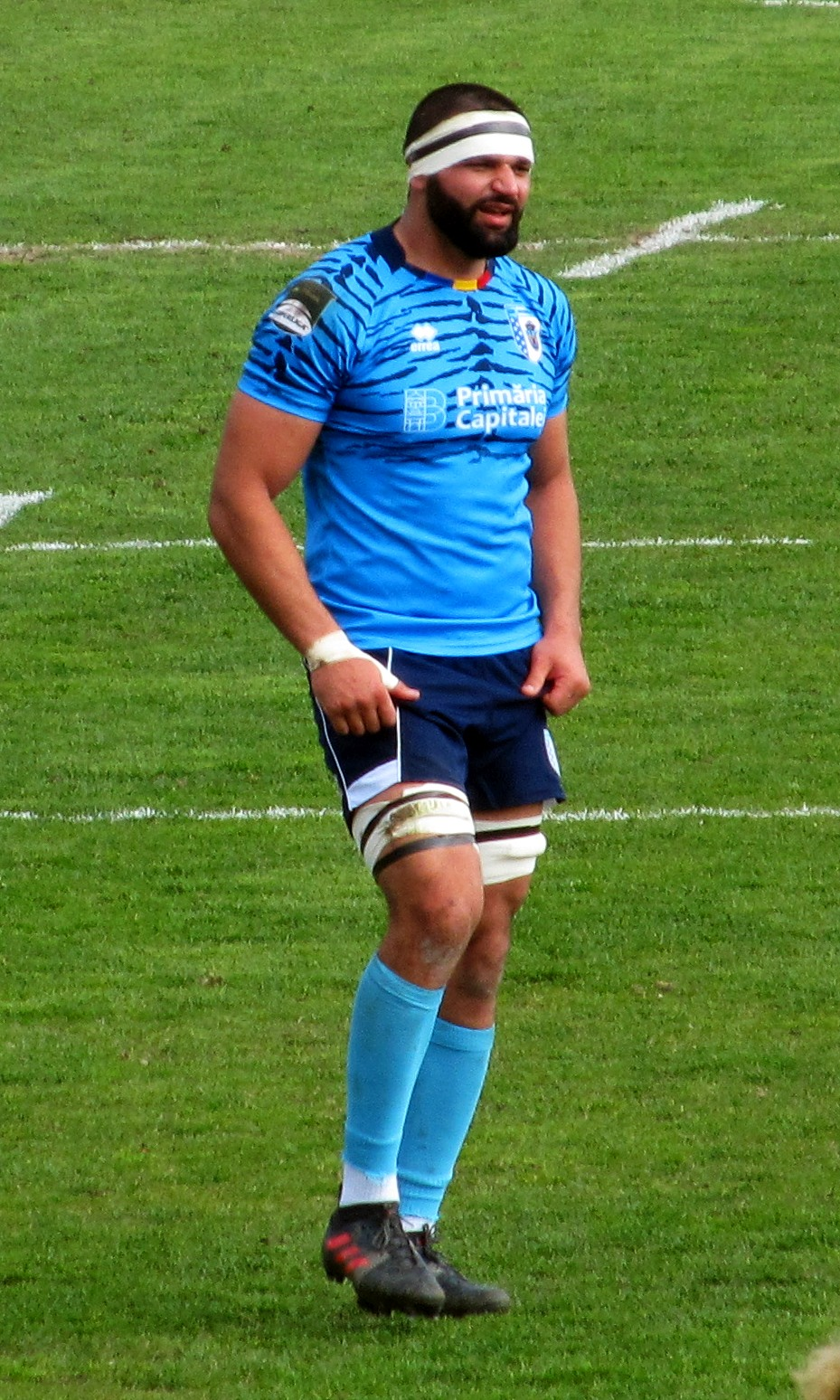 Georgian rugby union football player Davit Gigauri seen during the 2019 Cupa României Final match between his team, CSM București, and rivals Timișoara Saracens in March 2019